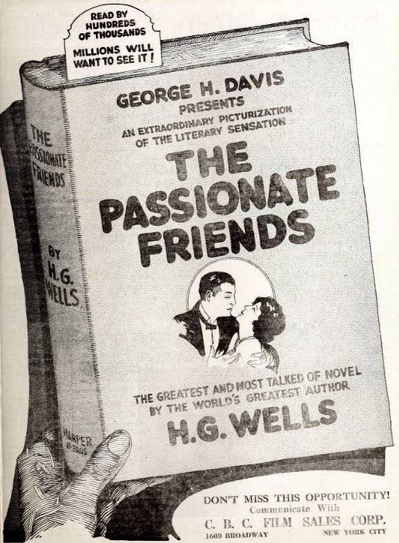 American advertisement for the British drama film The Passionate Friends (1922), on page 607 of the February 17, 1923 Exhibitor's Trade Review. The ad does not contain any stills or images from the film, but consists of a drawing.